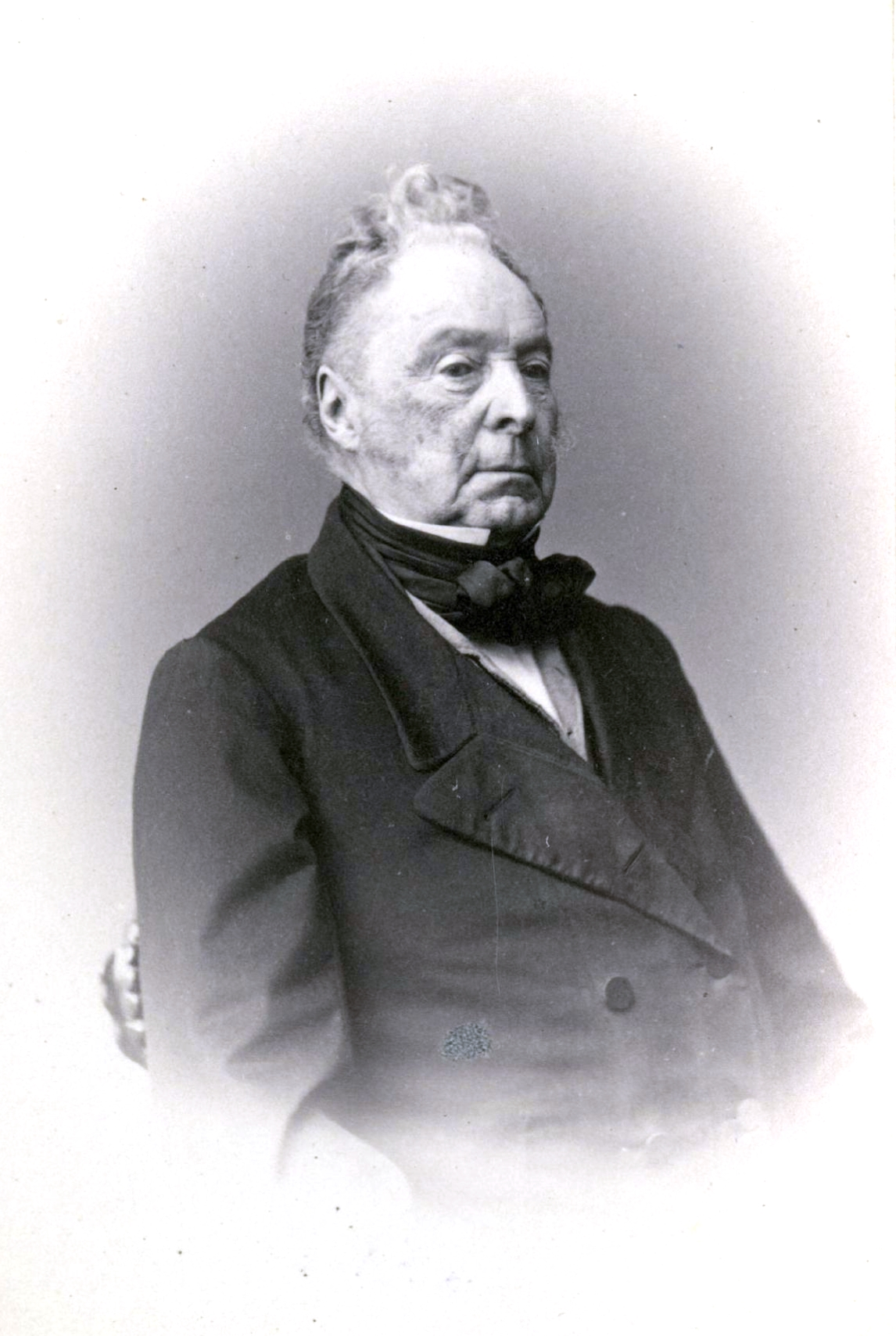 Alexander Ivanovich Ribopier